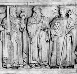 Frieze depicting Mohammed (in the middle) in the SCOTUS building